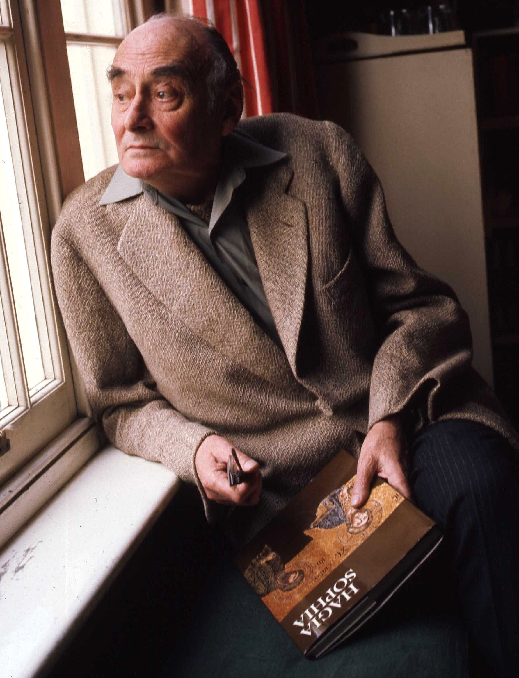 Portrait of Lord Kinross